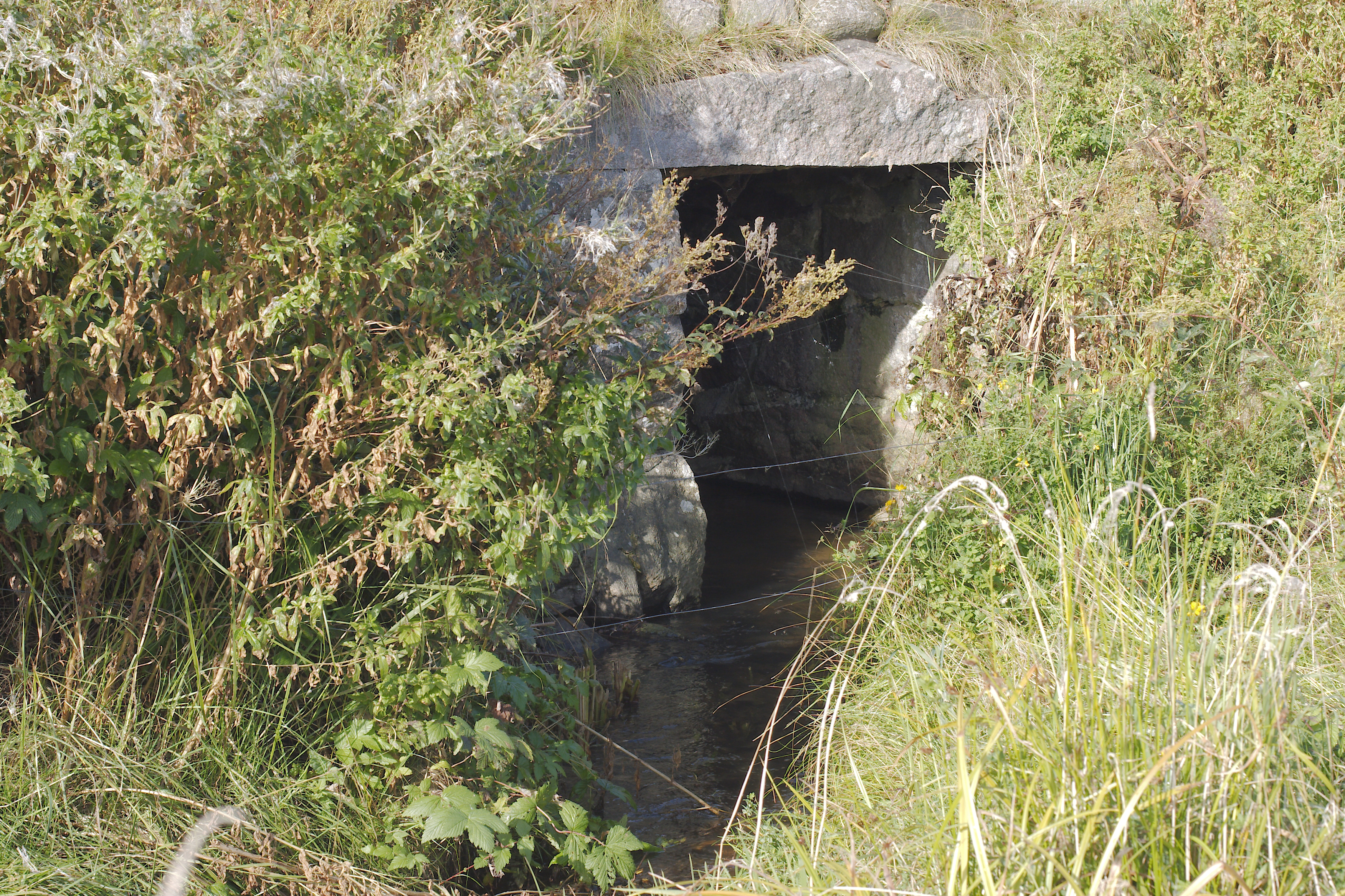 culvert in Borum at Aarhus